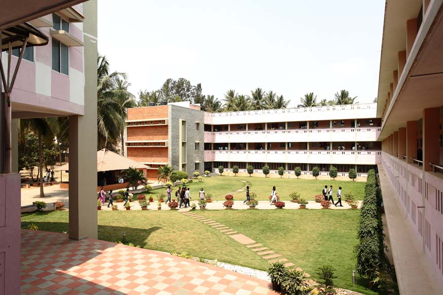 quadrangle